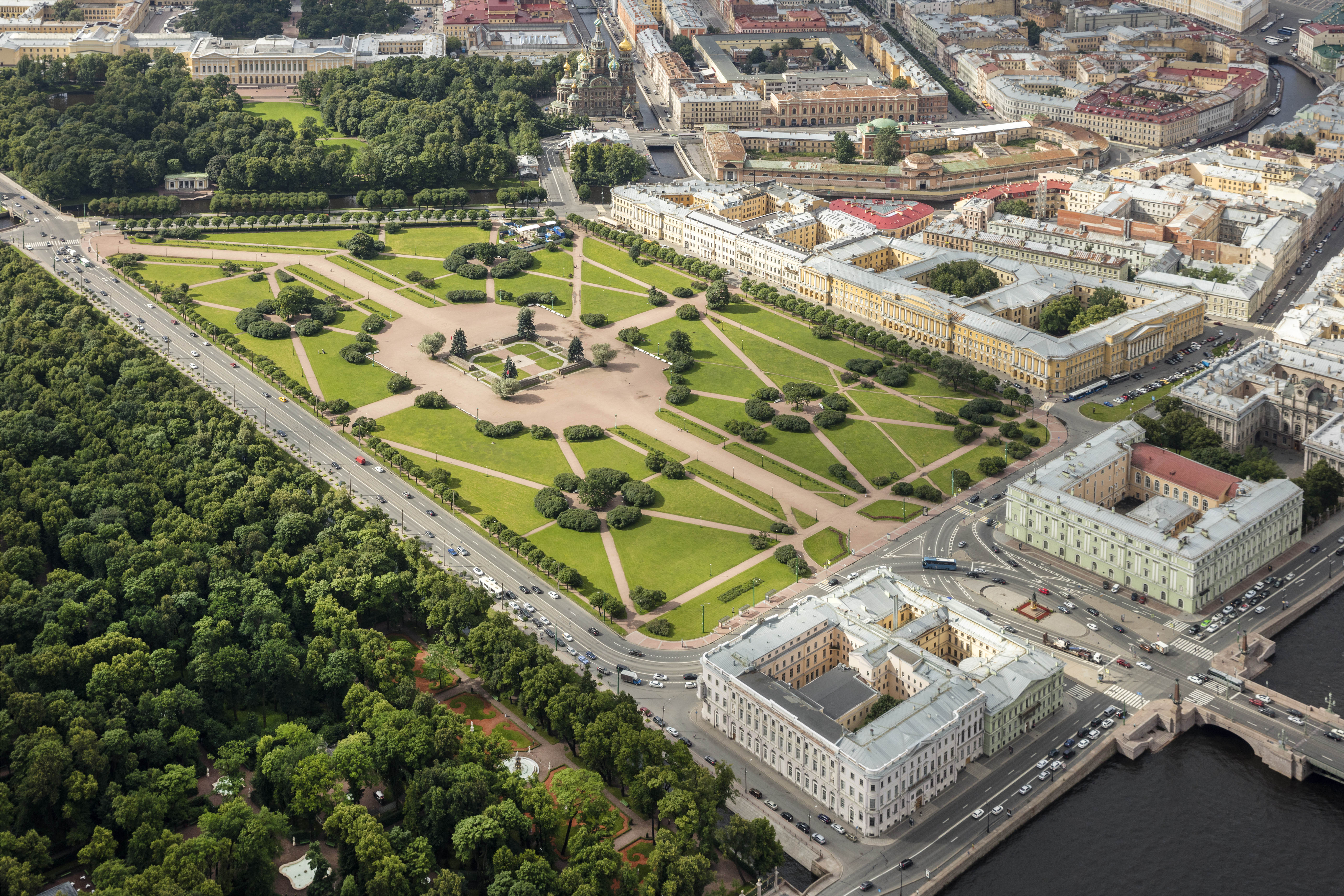 The Field of Mars or Marsovo Polye (Ма́рсово по́ле) in the center of Saint Petersburg, Russia.